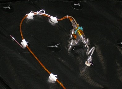 MSL EDL Instrument (MEDLI) Suite The Mars Science Laboratory Entry, Descent, and Landing Instrument (MEDLI) Suite is a set of engineering sensors designed to measure the atmospheric conditions and performance of the MSL heatshield during entry and descent at Mars. While not part of the core MSL scientific payload, it will provide important information for the design of entry systems for future planetary missions. The MEDLI suite consists of seven MEDLI Integrated Sensor Plugs (MISP) and seven Mars Entry Atmospheric Data System (MEADS) pressure sensors, located on the heatshield of the spacecraft.The picture shows a sensor MEADS MEADS measures the atmospheric pressure on the heat shield at the seven MEADS locations during entry and descent through Mars' atmosphere. The MEADS pressure sensors are arranged in a special cross pattern. This cross pattern will allow engineers to determine the spacecraft's orientation (its position and how that changes) as a function of time. Engineers will use this information to see how well their models predicted the spacecraft's real trajectory (its path) and its aerodynamics (how it acts when moving through the atmosphere). That information will allow them to plan future missions that will have even better performance during critical stages of entry, descent, and landing.